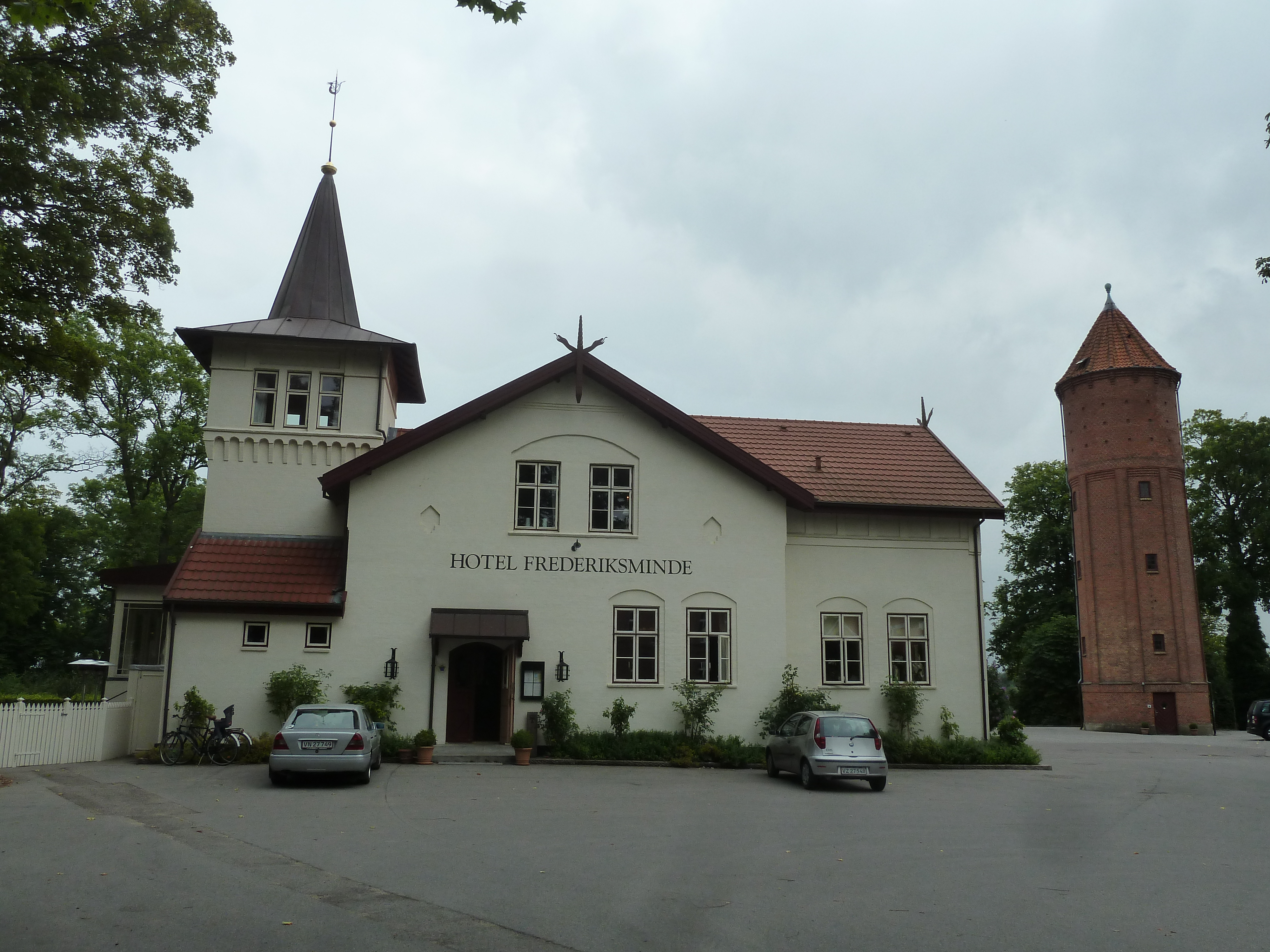 Hotel Frederiksminde in Præstø, Denmark